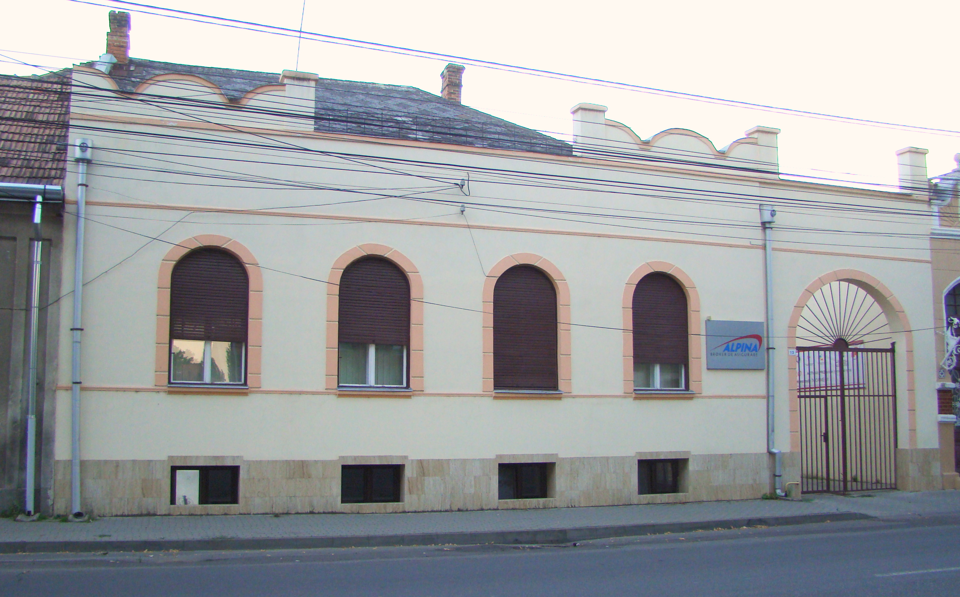 House, historic monument, Teilor street, number 13, Alba Iulia, Alba county, Romania